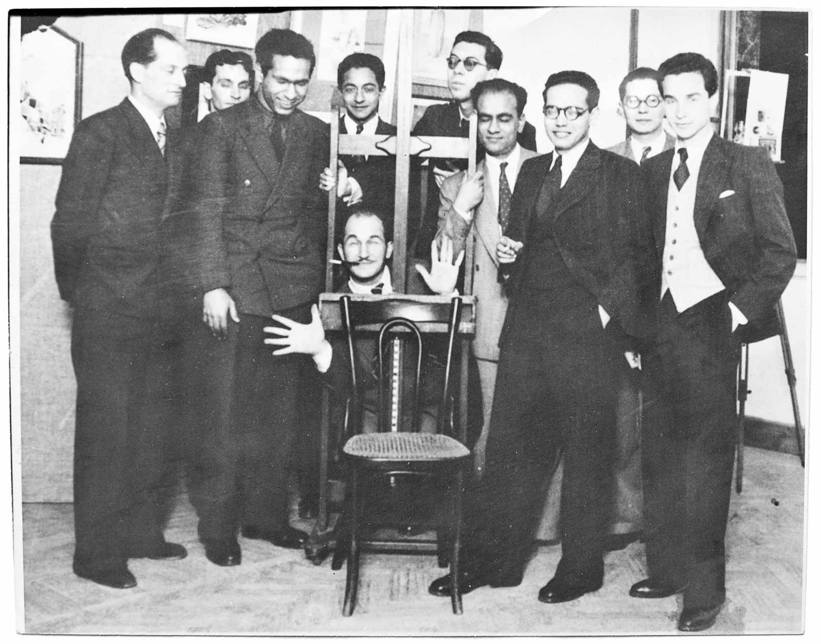 Members of the Art et Liberté Group, an Egyptian Surrealist group. Front row, left to right: Jean Moscatelli, Kamel el Telmissany, Angelo de Riz, Ramses Younan, Fouad Kamel. Back row, left to right: Albert Cossery, unidentified, Georges Henein, Maurice Fahmy, Raoul Curiel.